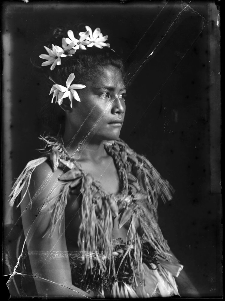 Glass negative (black and white); portrait of a woman from Niuafo'ou in front of a neutral backdrop; she has flowers in her hair, and wears a garland made of plant material and pandanus fruits, and a plant material girdle; Tonga. Glass negative.